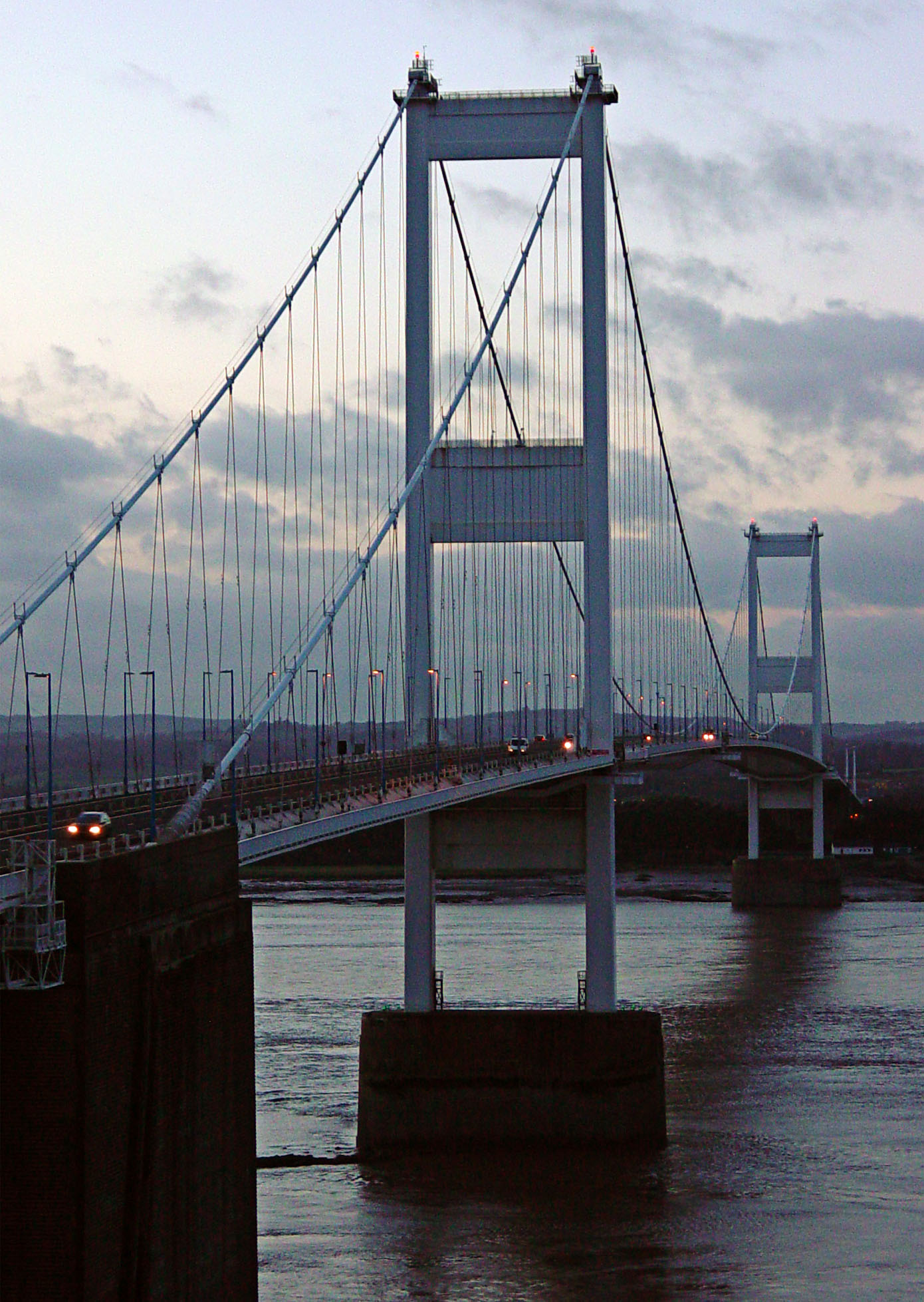 Photograph taken by me (Euchiasmus) of the Severn Bridge looking north from the English side, January 2006. This observation viewpoint is reached by walking north from the Motorway Service station.